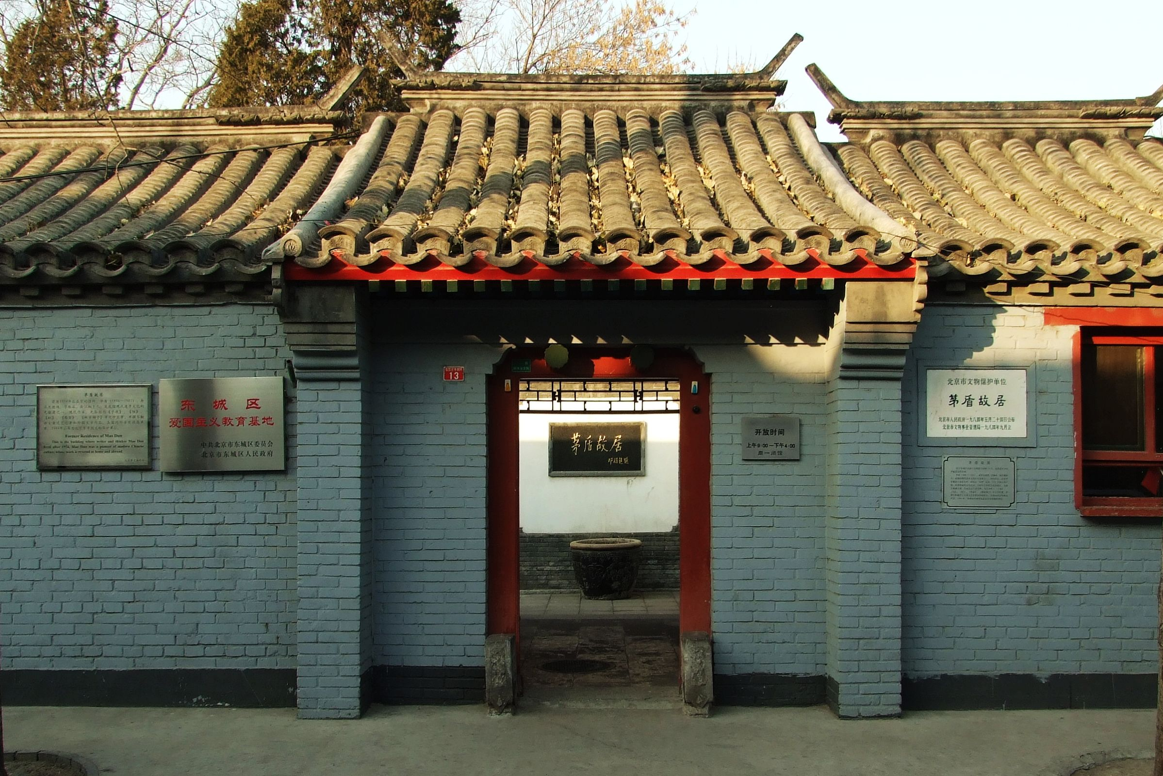 Maodun's house